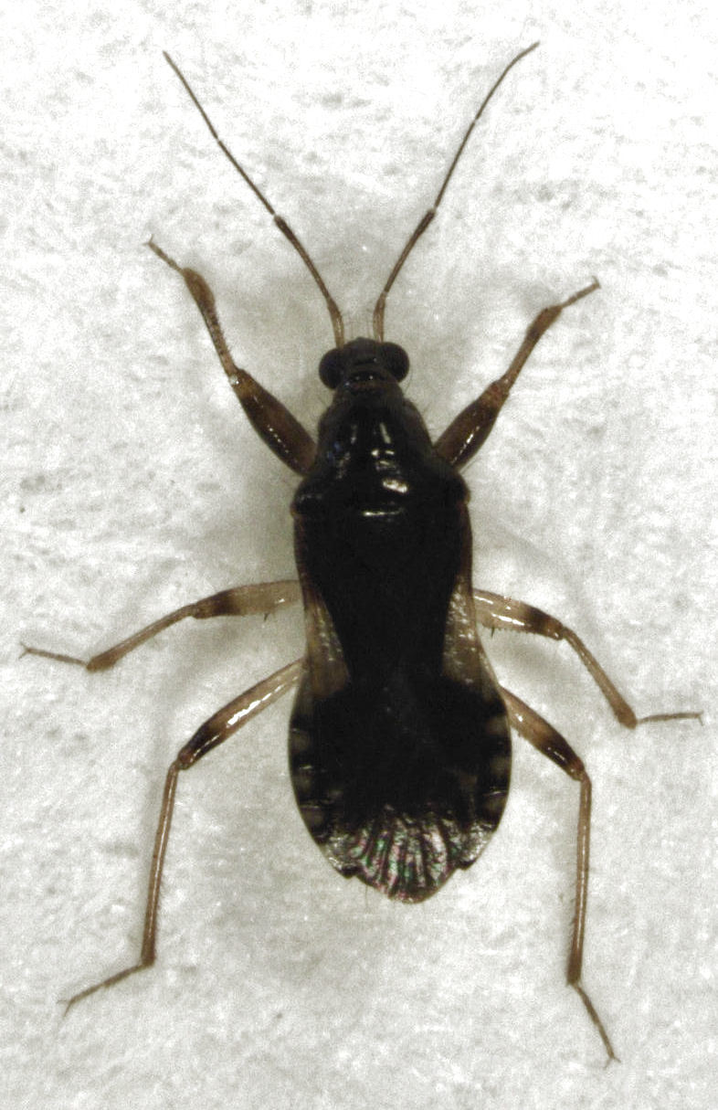 Alloeorhynchus myersi Bergroth, 1927 (Adult)